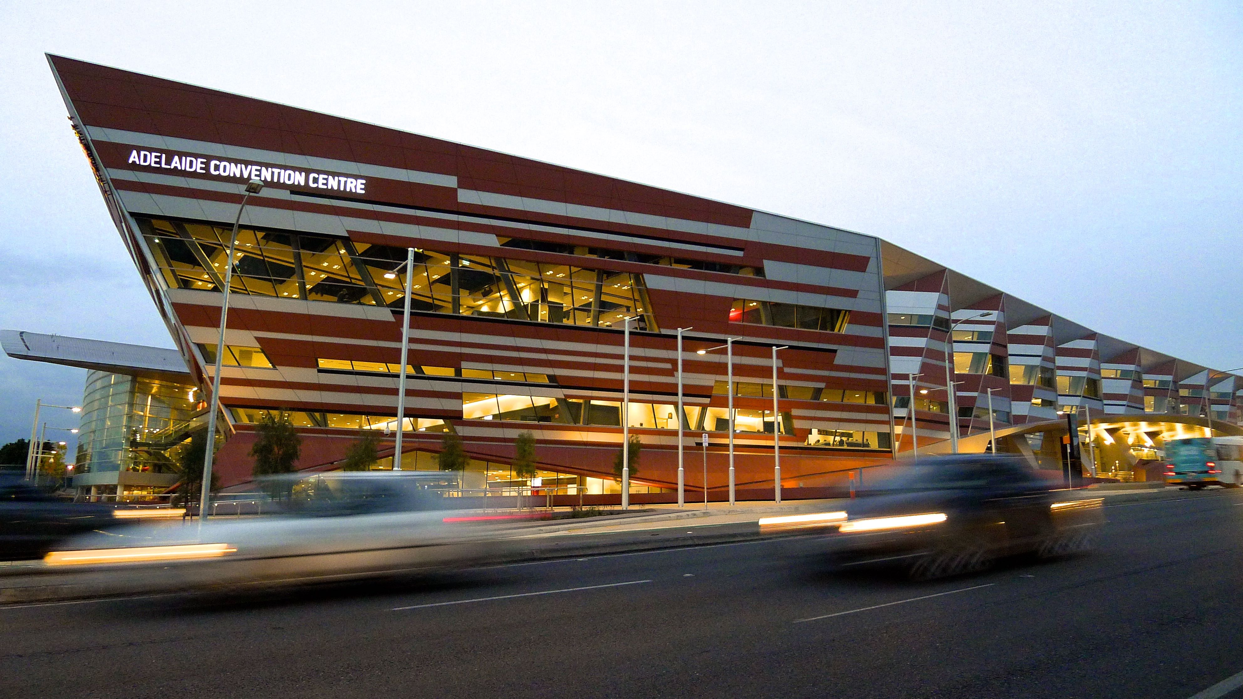 The Adelaide Convention Centre's West Building, opened in summer 2015.